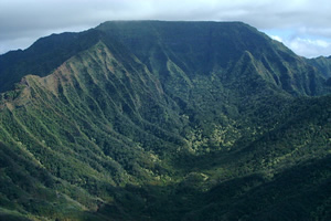 Plateau at the summit of Mount Ka‘ala, O‘ahu, Hawai‘i